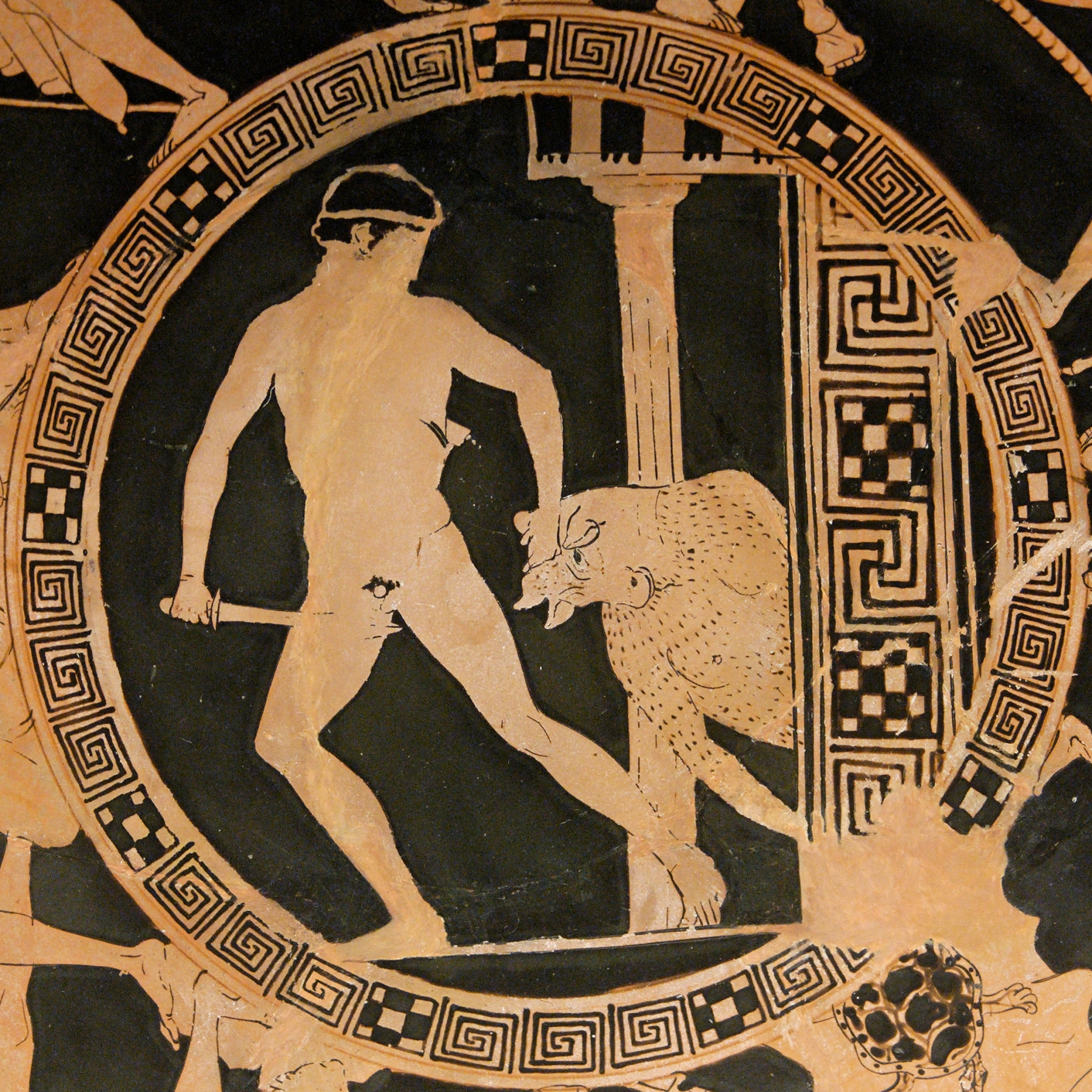 Theseus dragging the Minotaur from the Labyrinth. Tondo of an Attic red-figured kylix, ca. 440-430 BC. Said to be from Vulci.